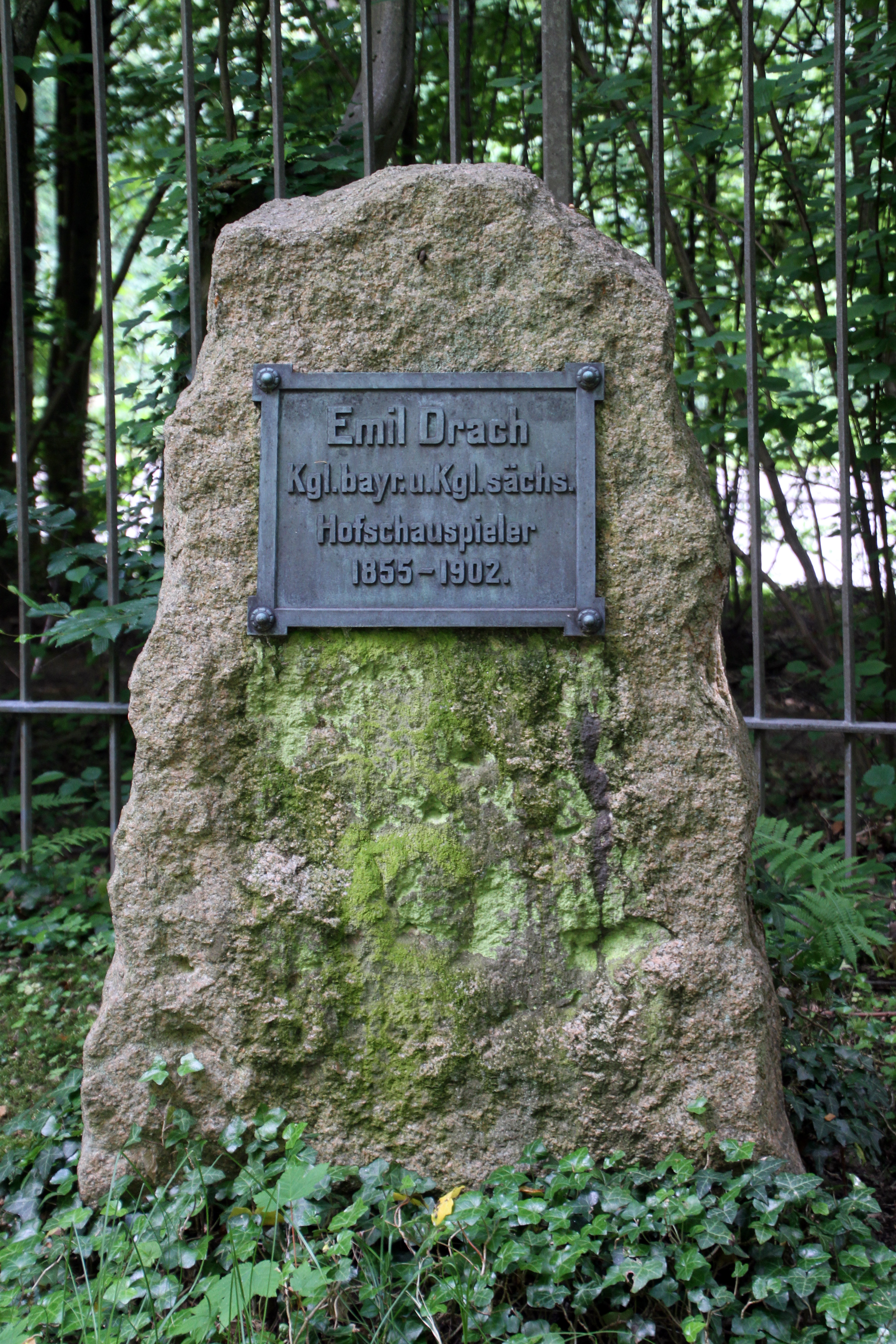 Cemetery Achern-Illenau